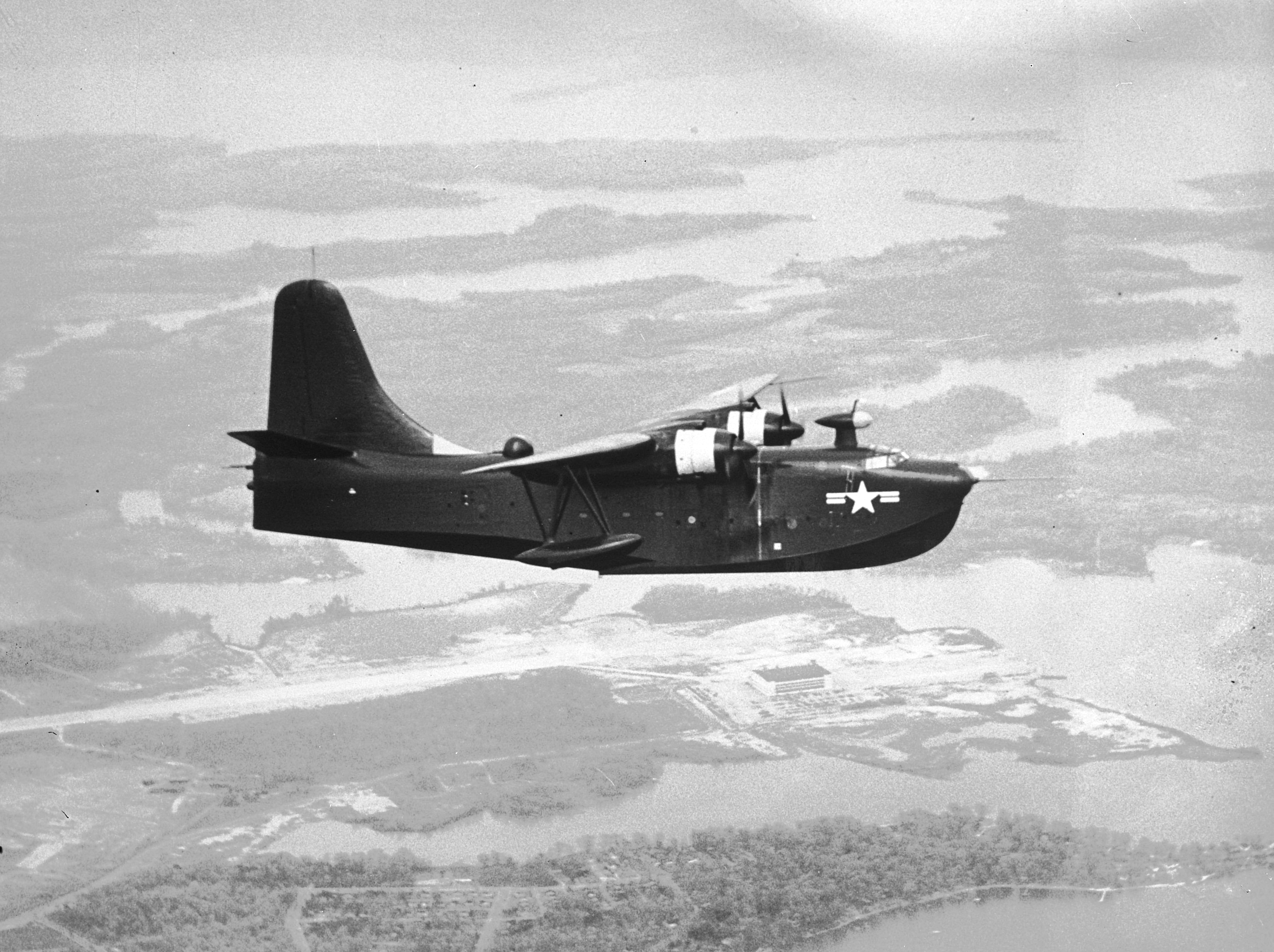 The Martin XP5M-1 Marlin prototype flying boat in flight on 23 June 1948. It made its first flight on 30 March 1948.